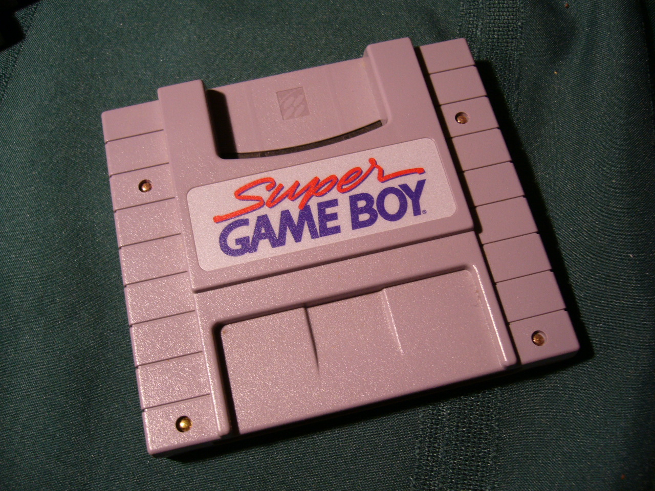 The Super Game Boy (US version) from Nintendo, an adaptor that allows to play Game Boy games on the Super Nintendo Entertainment System (SNES). Released in 1994.